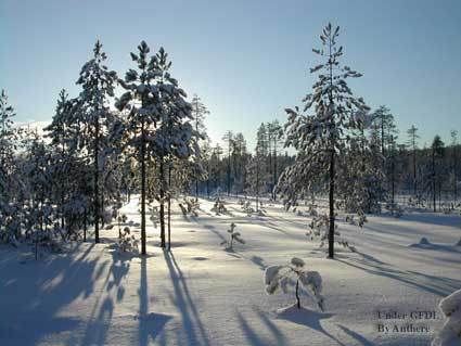 Beautiful afternoon an hour before sunset